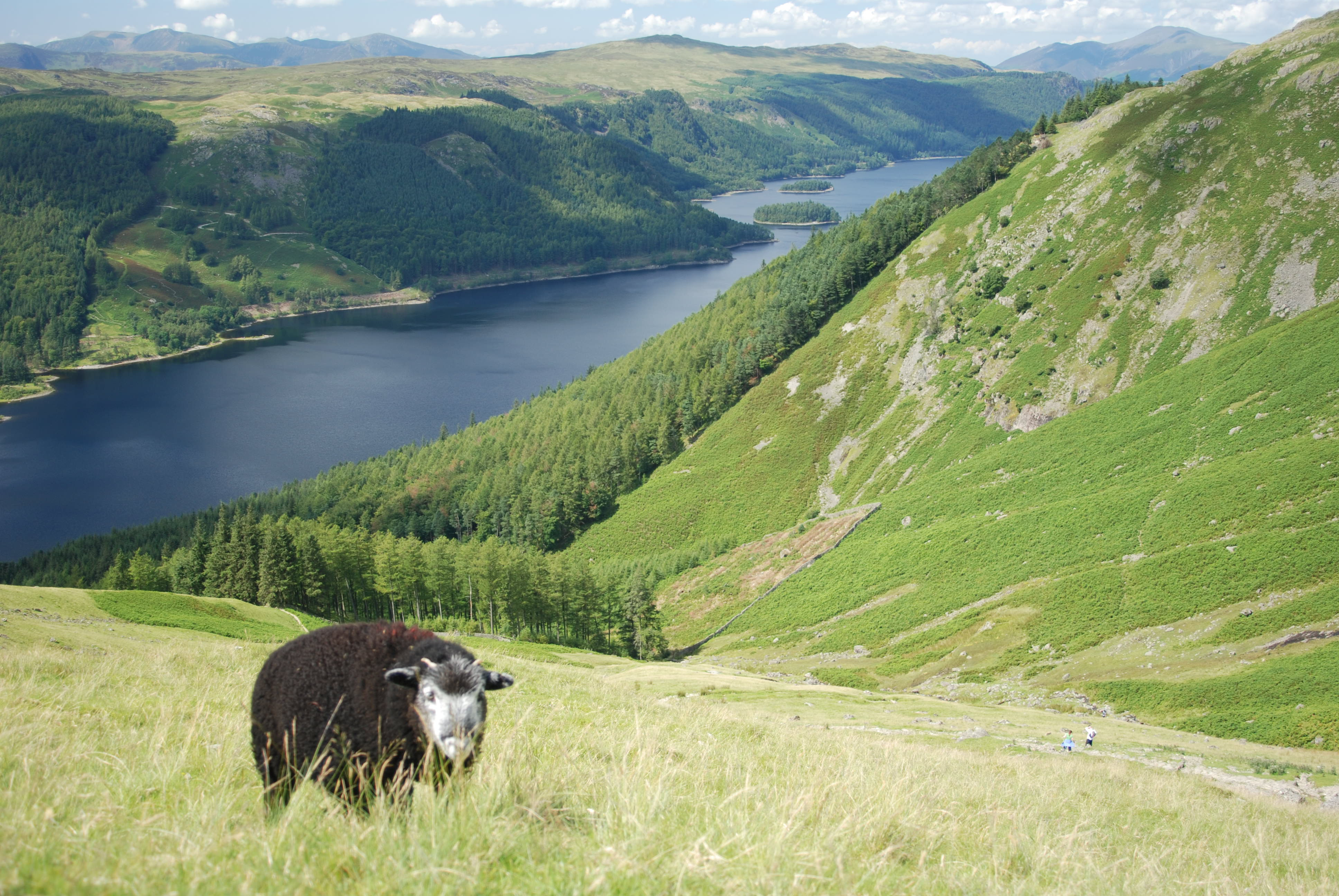 Thirleme - Lake District - England with Herdwick sheep grazing in the foreground